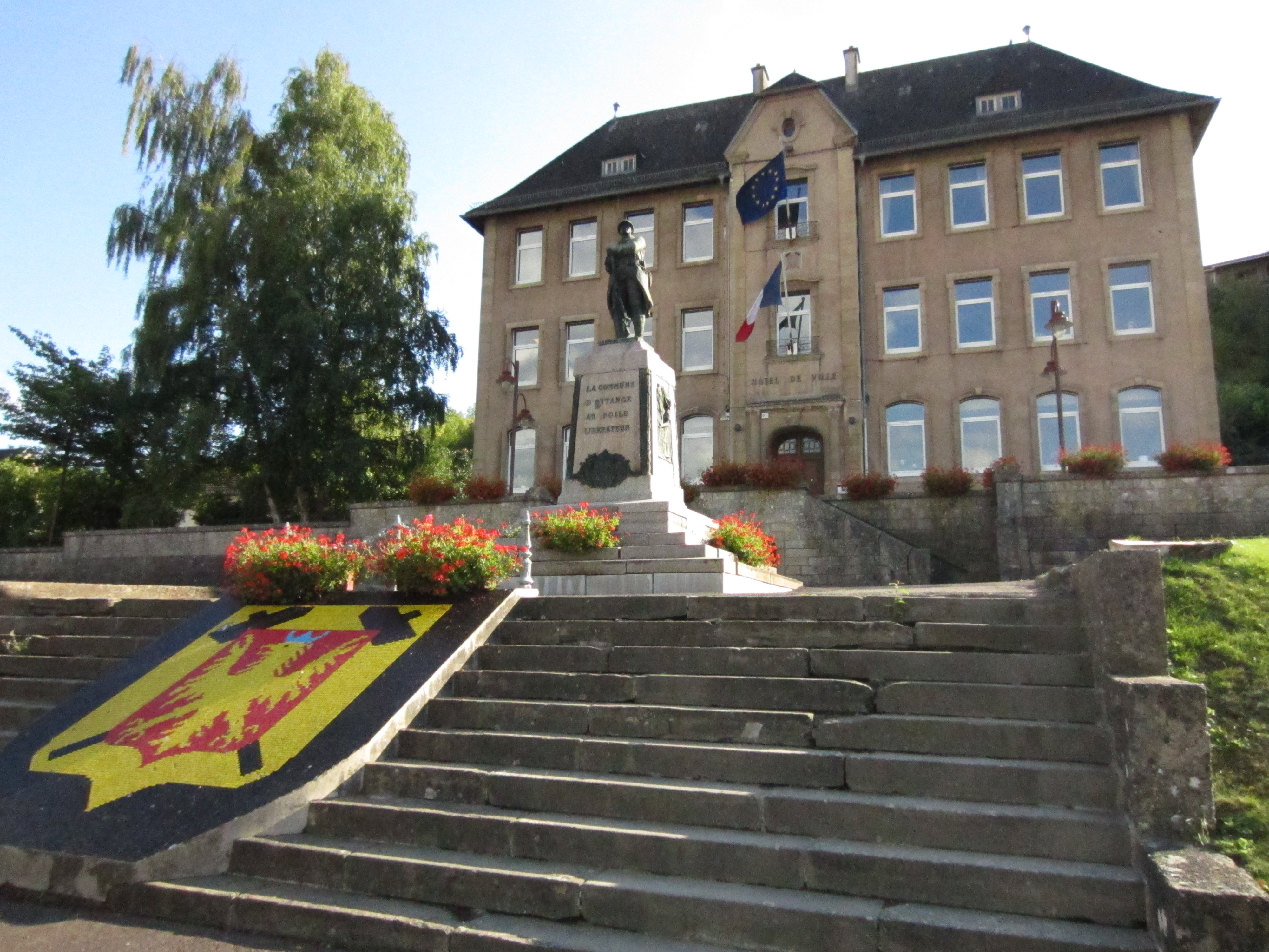 Description mairie Ottange Date31 August 2011Sourcemon appareil photoAuthorAimelaimePermission(Reusing this file) mairie Ottange